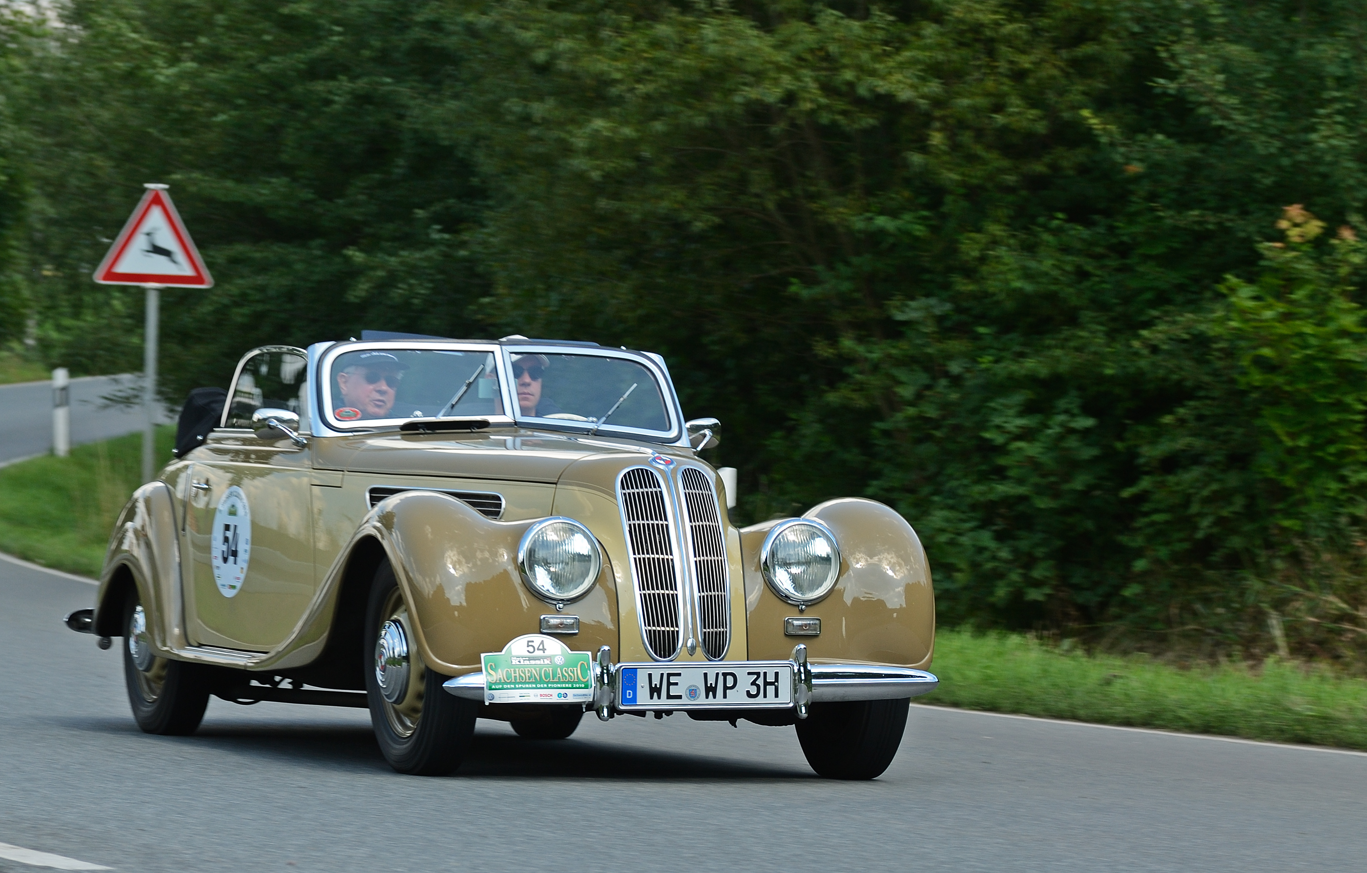 EMW 327/2 from 1954 during the Saxony Classic Rallye 2010